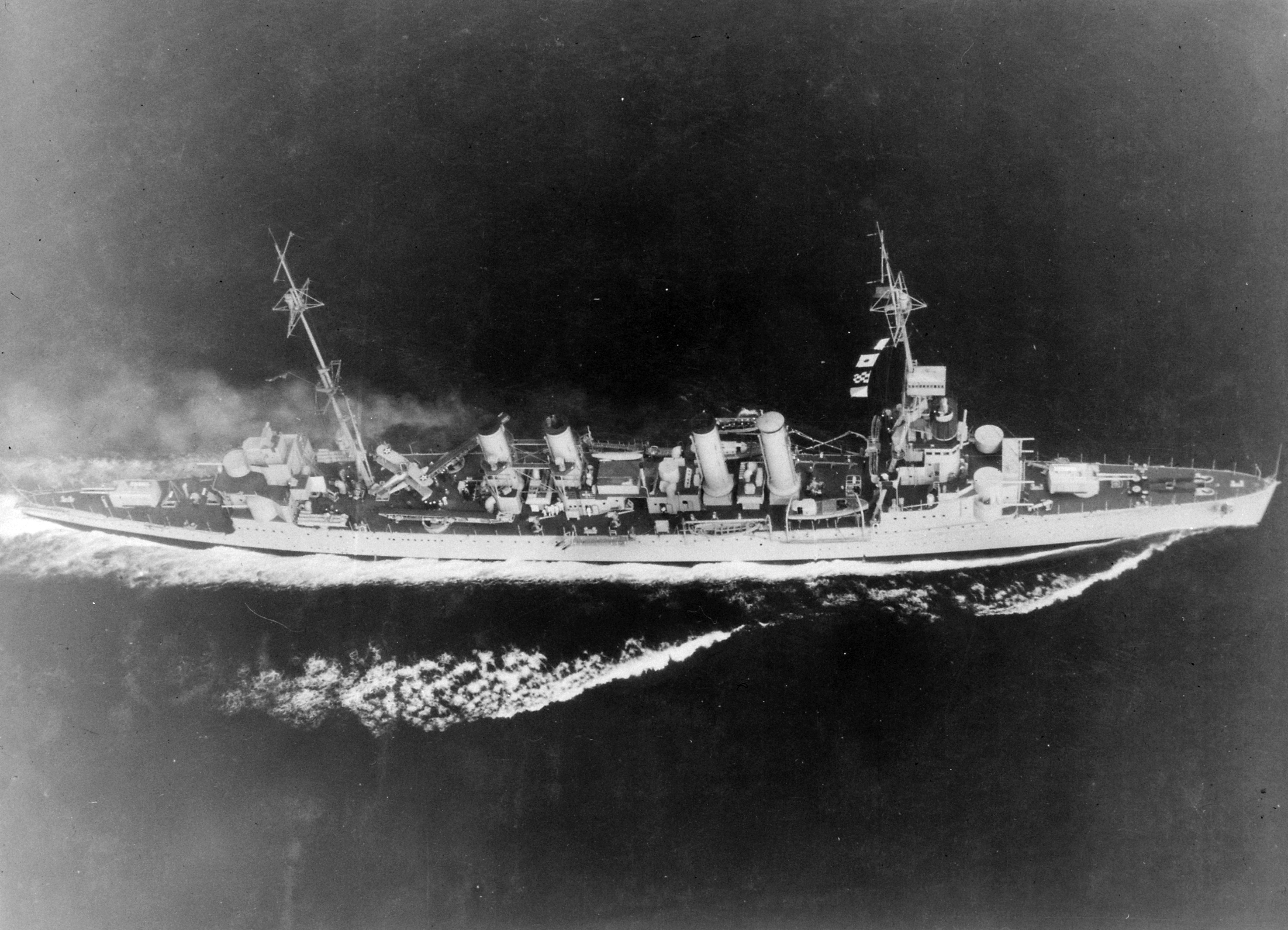 General notes: The U.S. Navy light cruiser USS Marblehead (CL-12) underway at sea on 10 January 1933.